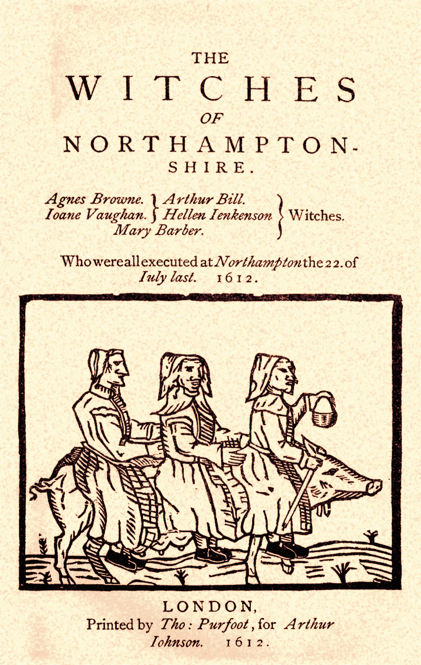 Cover of the pamphlet "The Witches of Northampton" showing three witches riding on a sow, published after the Northamptonshire witch trials